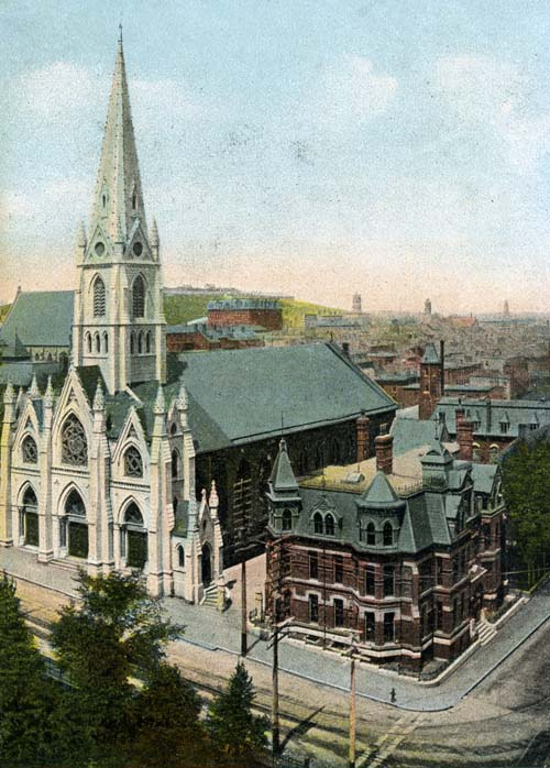 St. Mary's Cathedral and Glebe House in Halifax, N.S. From a postcard. Unknown date and author.